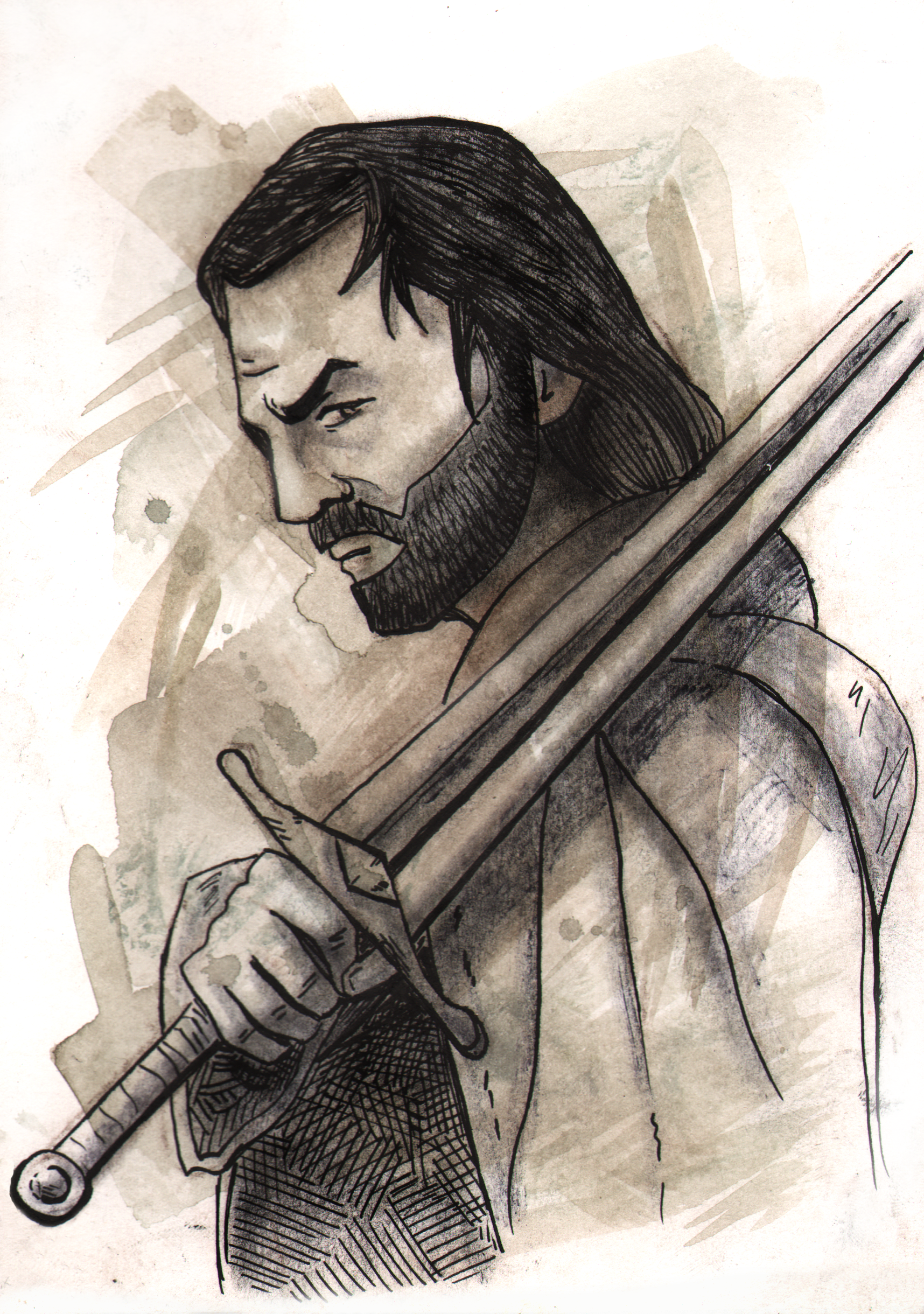 Illustration of Aragorn, one of the characters in the Lord of the rings.